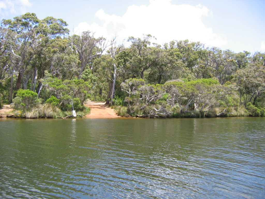 View of river bank on Hardy Inlet, Blackwood River, Western Australia.